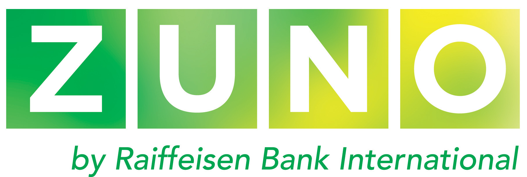 ZUNO bank logo